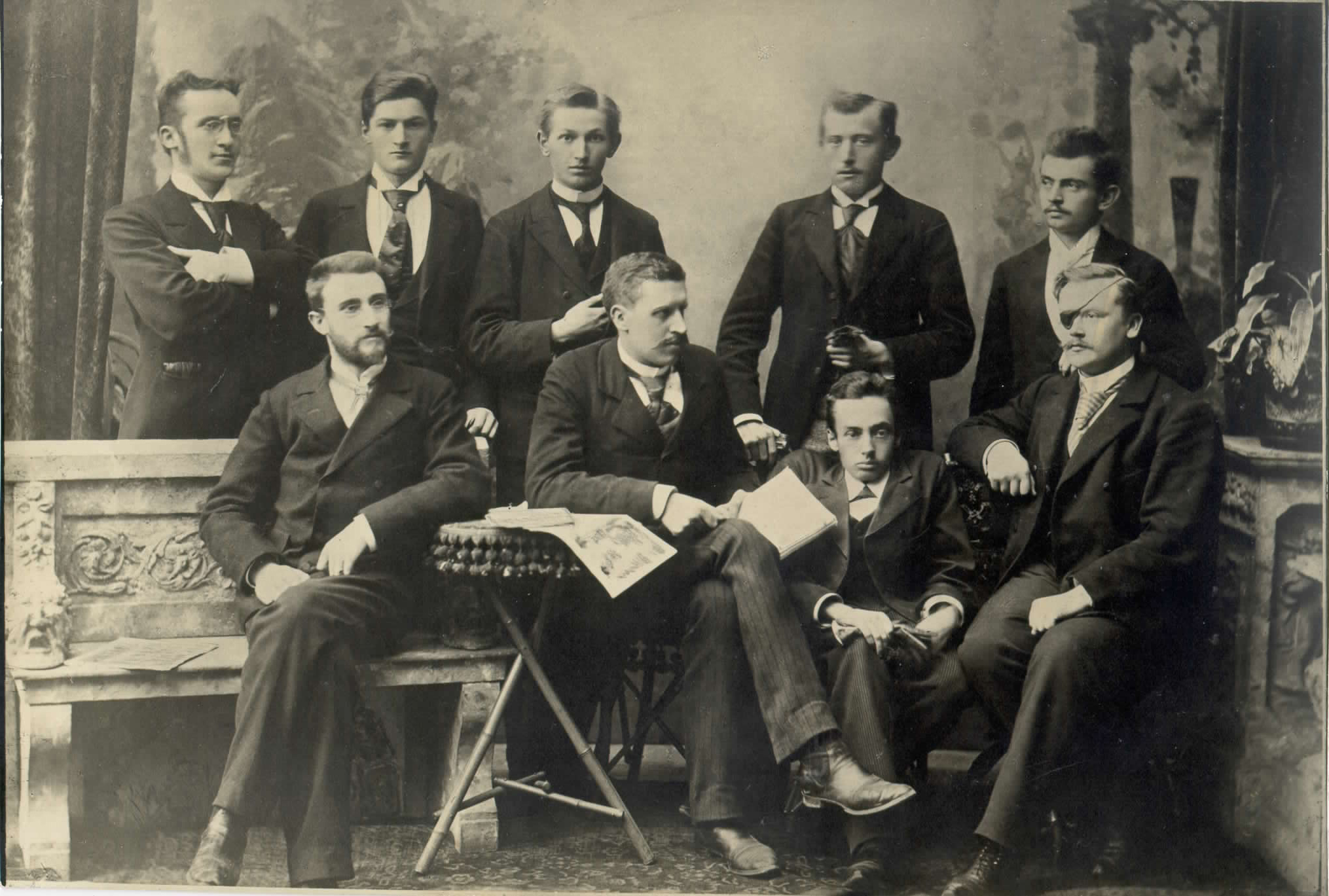 Literar club at Vienna in 1896. (standing: F. Govekar, A. Majaron, O. Župančič, I. škerjanec, I. Cankar, sitting: Fr. Vidic, Fr. Göstl, F. Jančar, F. Eller)